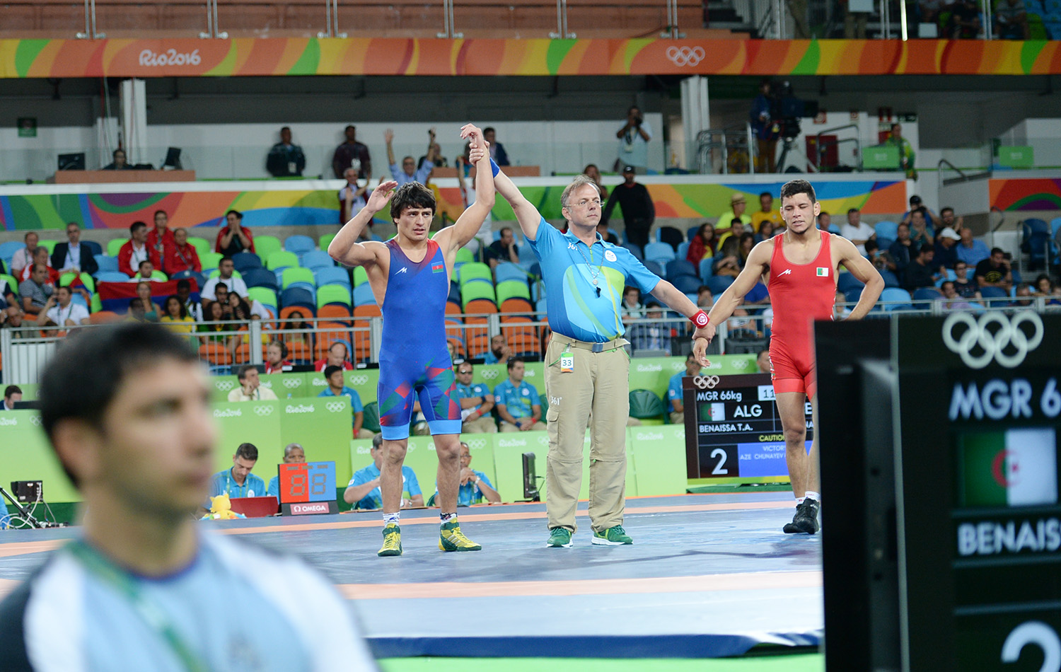 Wrestling at the 2016 Summer Olympics, Chunayev vs Benaissa